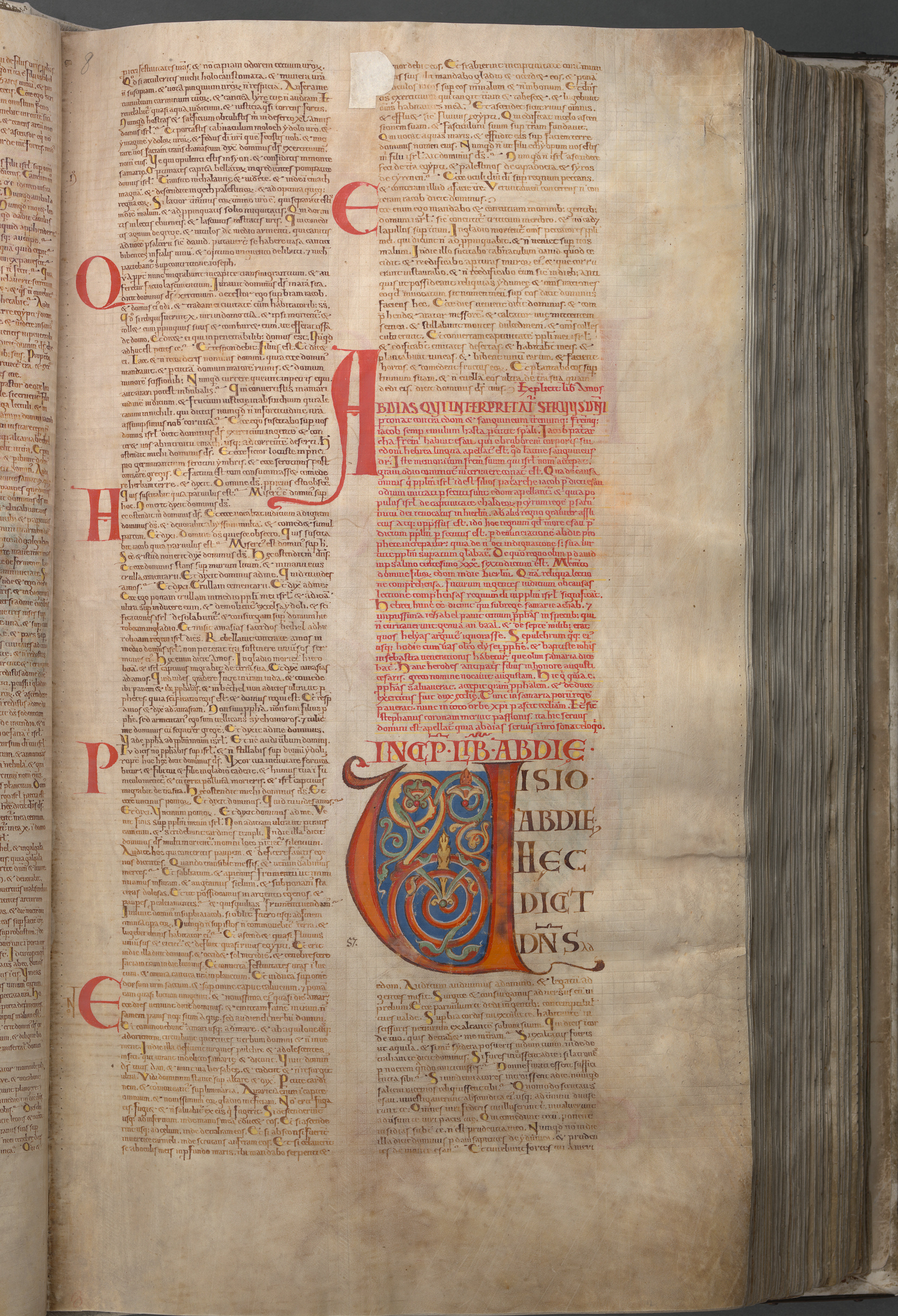 Giant Book) is the largest extant medieval manuscript in the world. It is also known as the Devil's Bible because of a large illustration of the devil on the inside and the legend surrounding its creation. It is thought to have been created in the early 13th century in the Benedictine monastery of Podlažice in Bohemia (modern Czech Republic). It contains the Vulgate Bible as well as many historical documents all written in Latin. During the Thirty Years' War in 1648, the entire collection was taken by the Swedish army as plunder, and now it is preserved at the National Library of Sweden in Stockholm, though it is not normally on display. This page contains the last part of the book of Amos (5:21-9:15/end) and the first part of the book of Obadiah.